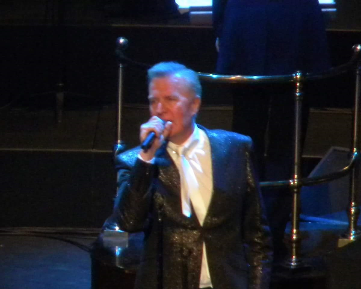 Martin Fry performing at Royal Albert Hall, London on 6th April 2016